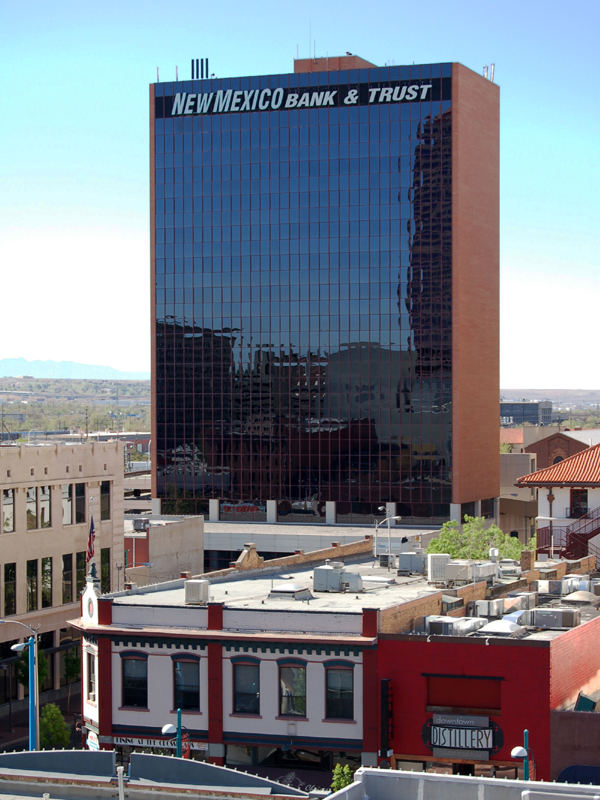 Gold Building in Albuquerque, New Mexico, seen from roof of 5th and Copper parking garage. Photo by camerafiend.